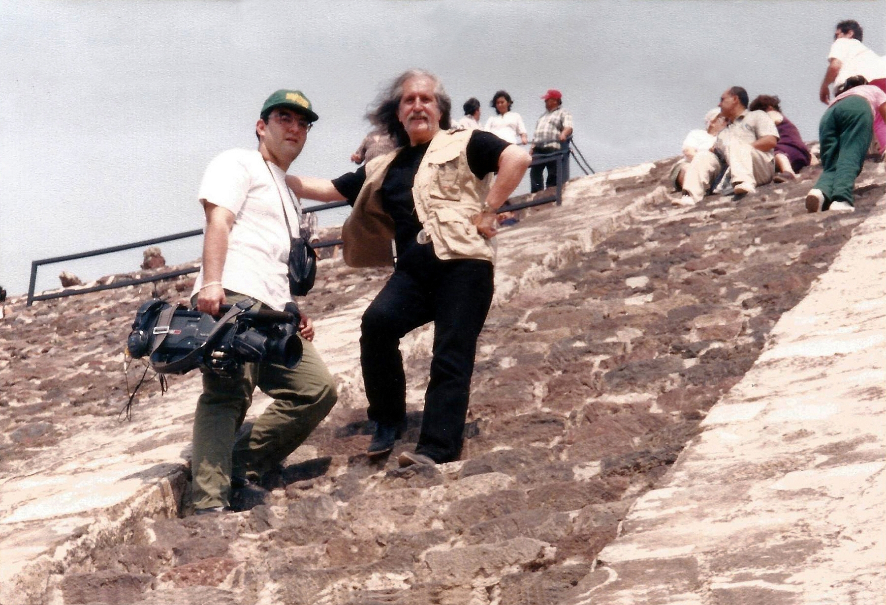 Sen. Cameraman Erkan Umut & Barış Manço in Teotihuacan, Mexico during the shooting of the popular Turkish TV program "Barış Manço ile 7den 77ye" in 1998